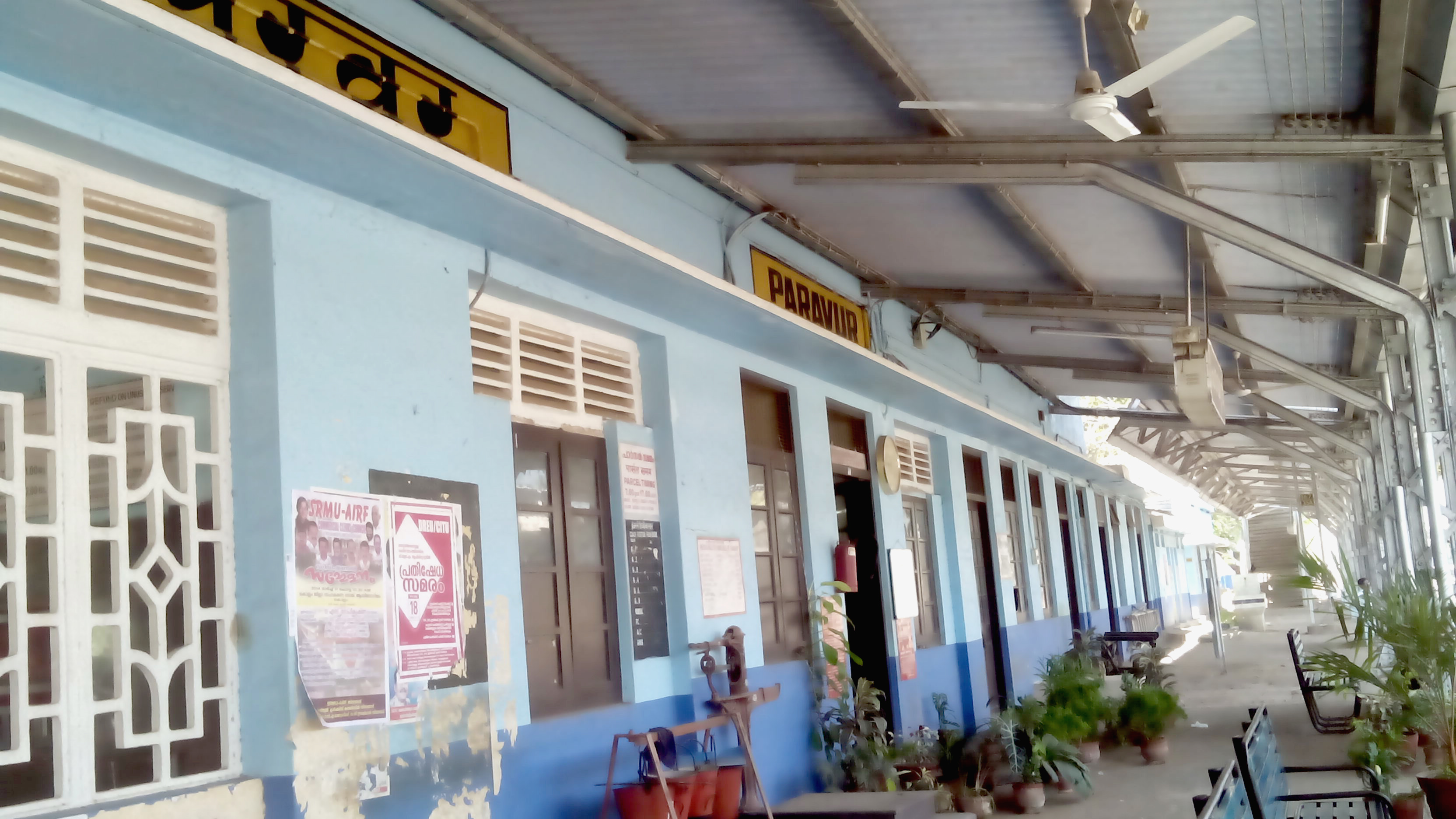 Paravur Railway Station Building is constructed by the old British Government during 1918